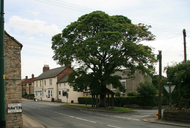 Nawton & Beadlam Bus Shelter. The bus shelter at Nawton and Beadlam is built around an old sycamore tree. A memorial tablet inside states "To the dear and happy memory of David Duncombe. Born 8th February 1910. Died 8th September 1927".